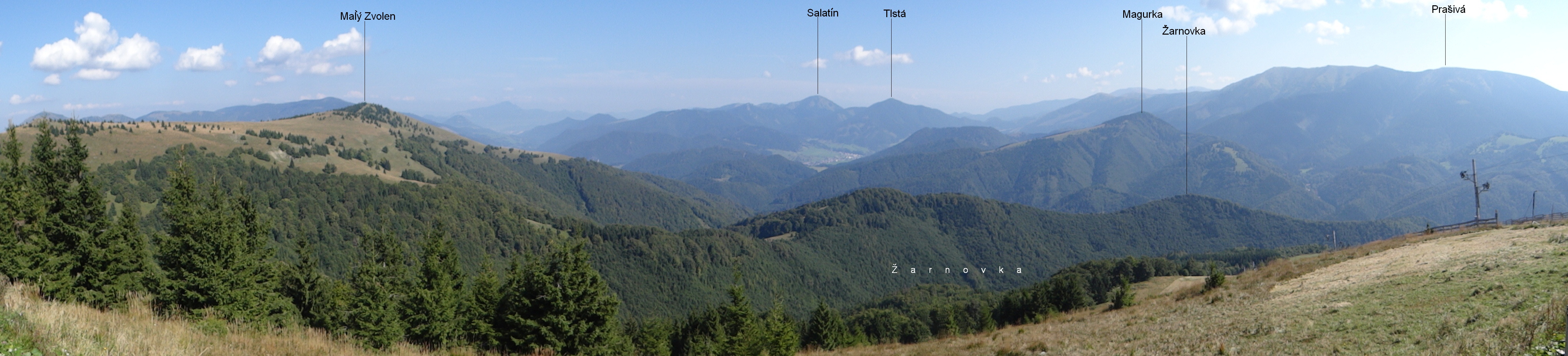 View from Nová hoľa